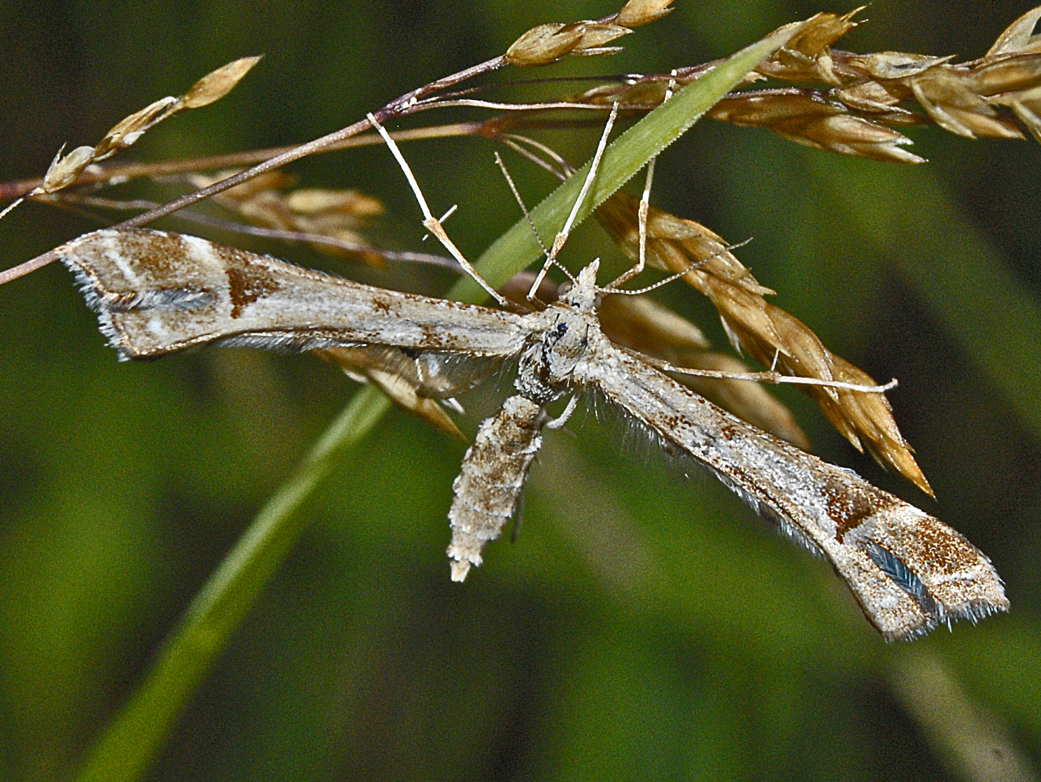 Platyptilia gonodactyla. Bousson. Torino, Italy